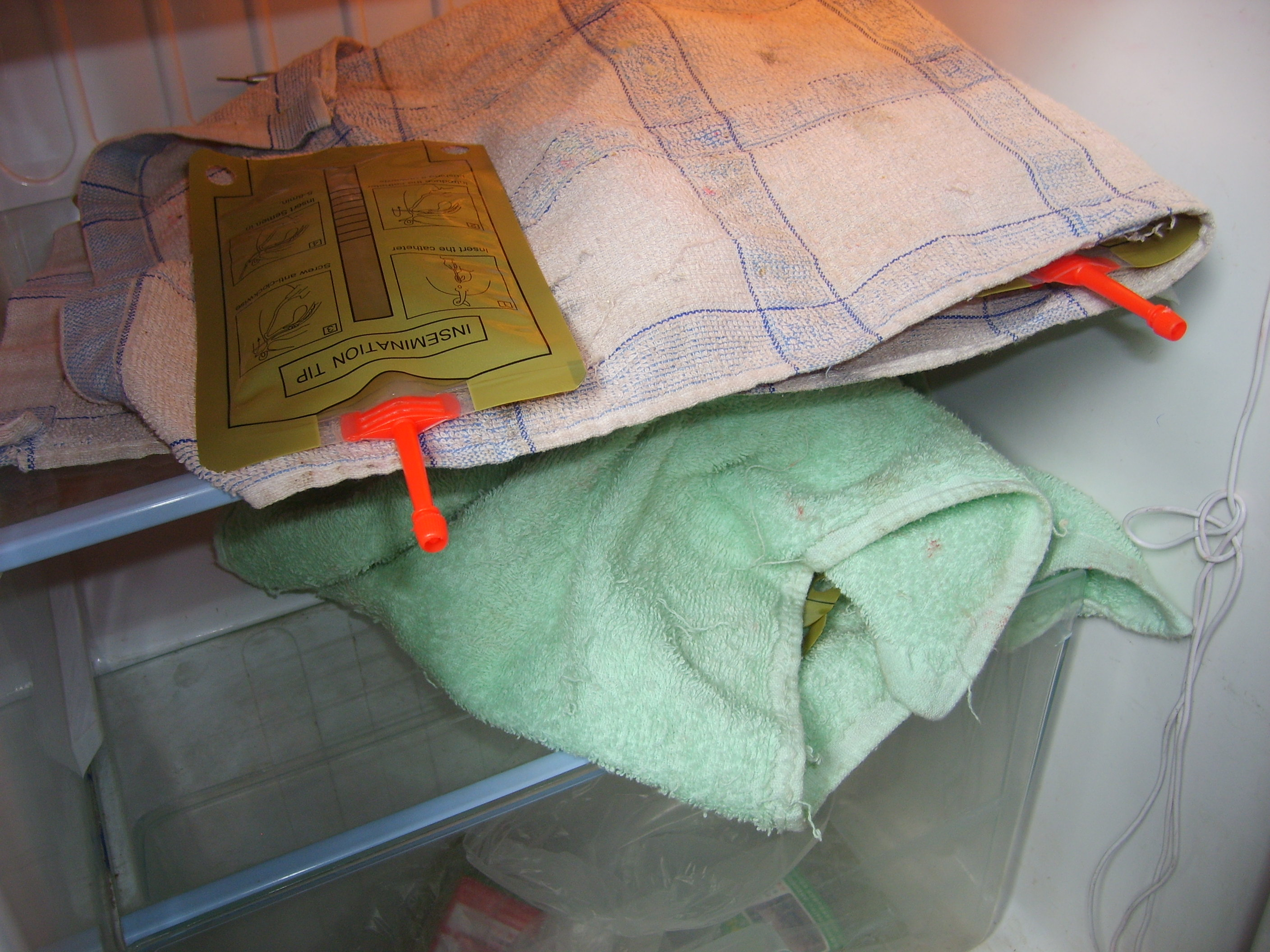 Boar semen in fridge